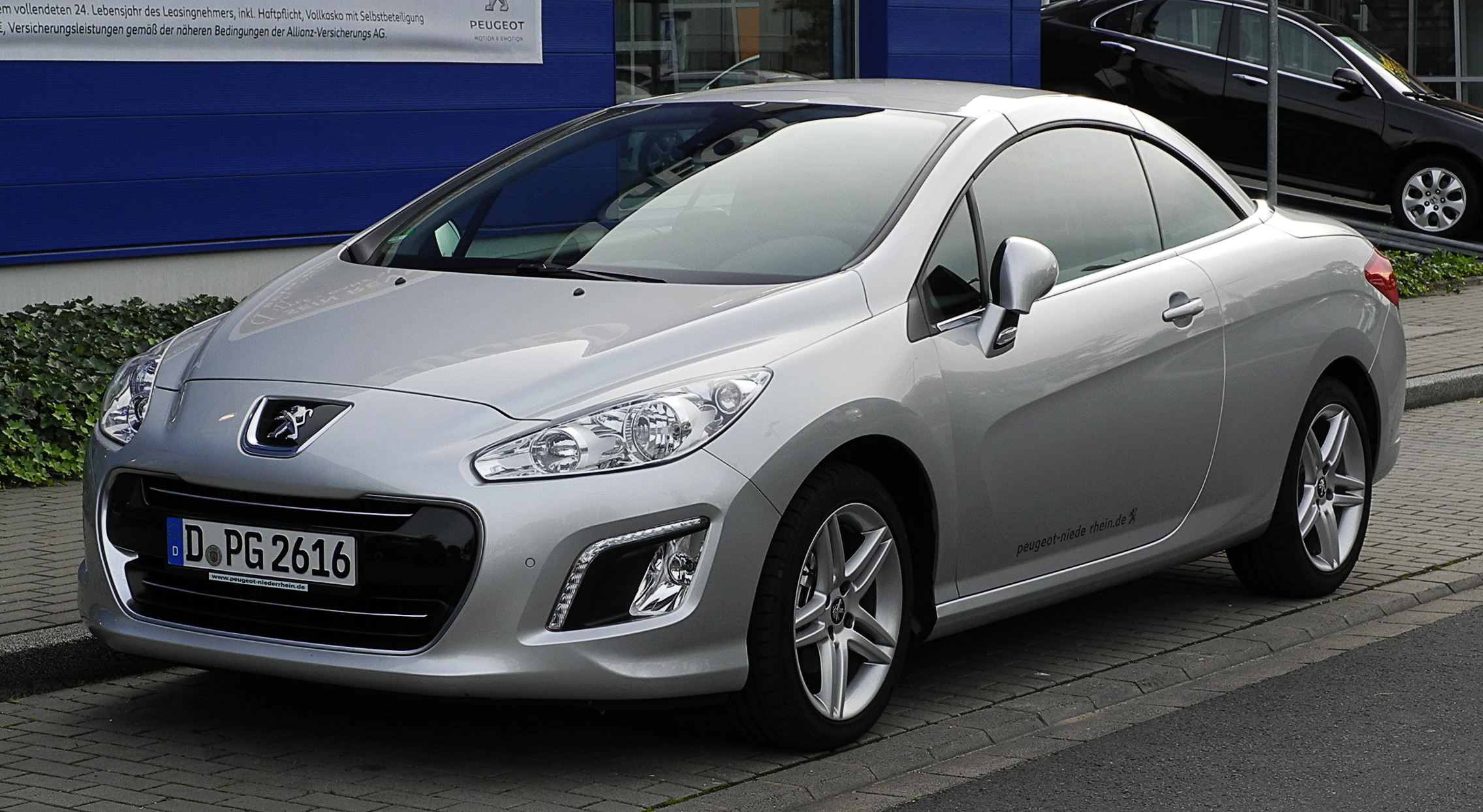 Peugeot 308 CC e-HDi FAP 110 STOP & START Active (Facelift)